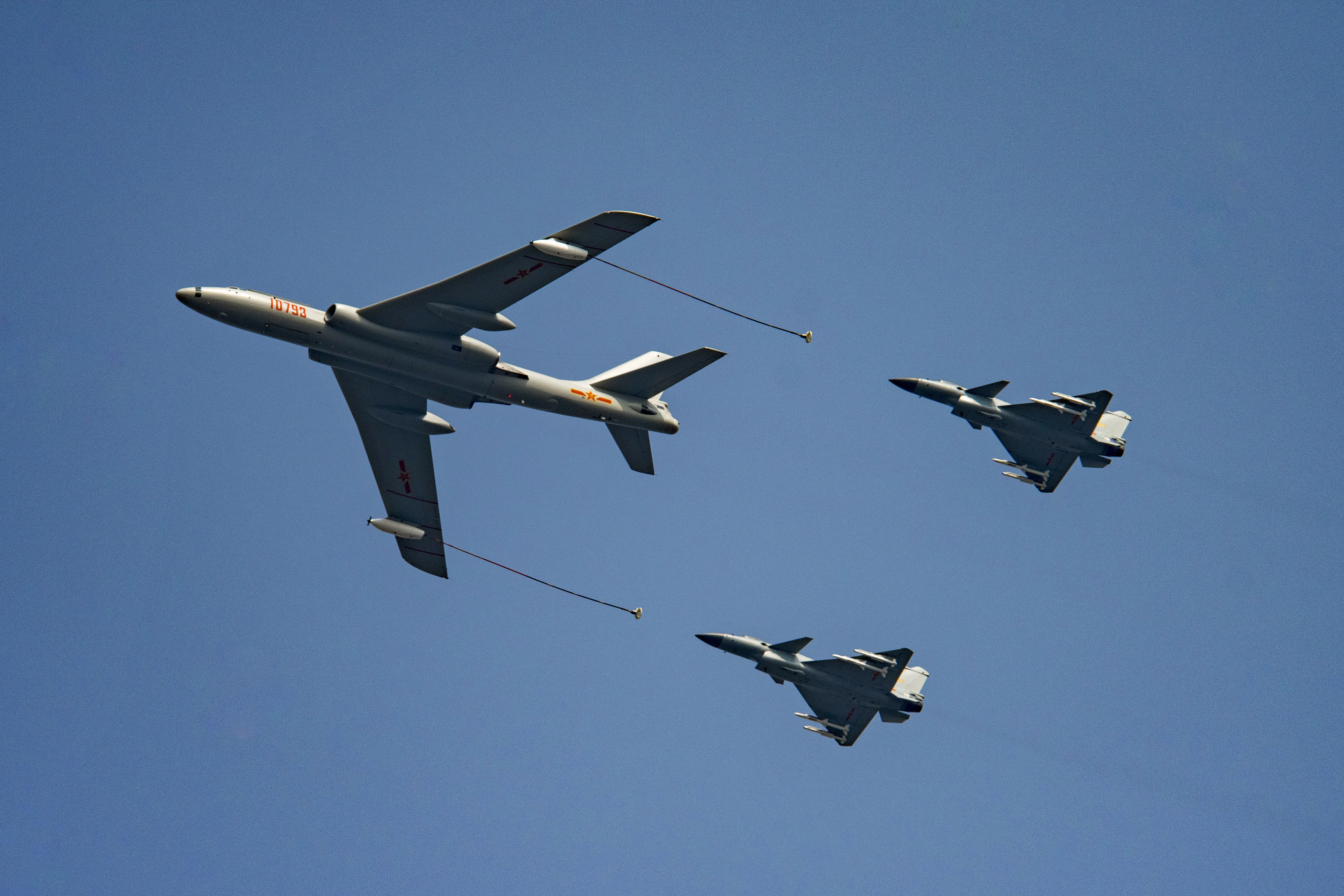 The second one, 10793.